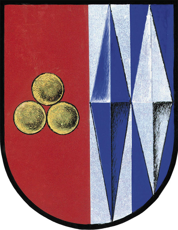 Coat of arms of Sankt Nikolai im Sausal, Styria